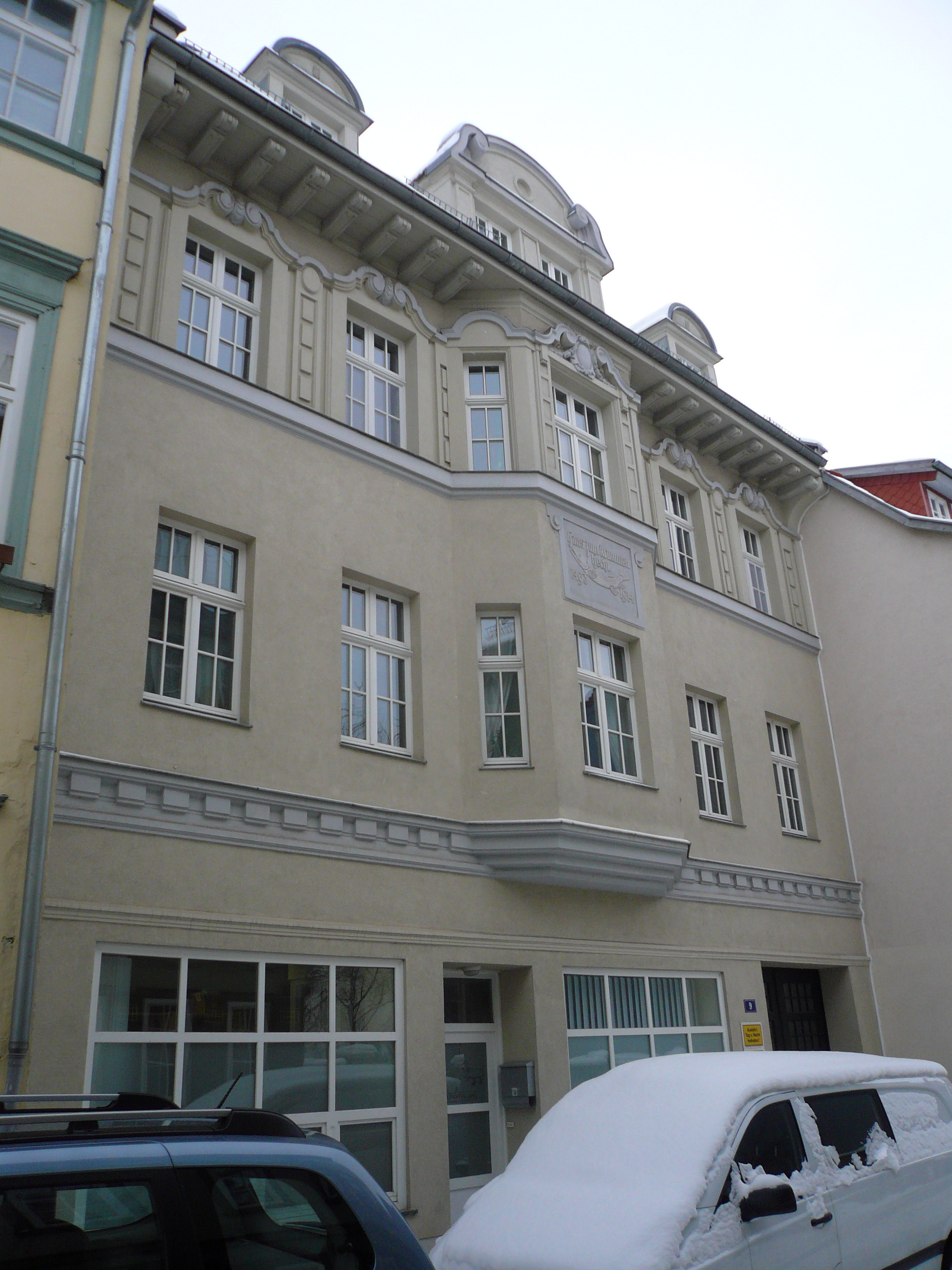 The house "Zum krummen Hecht" in Erfurt, Germany